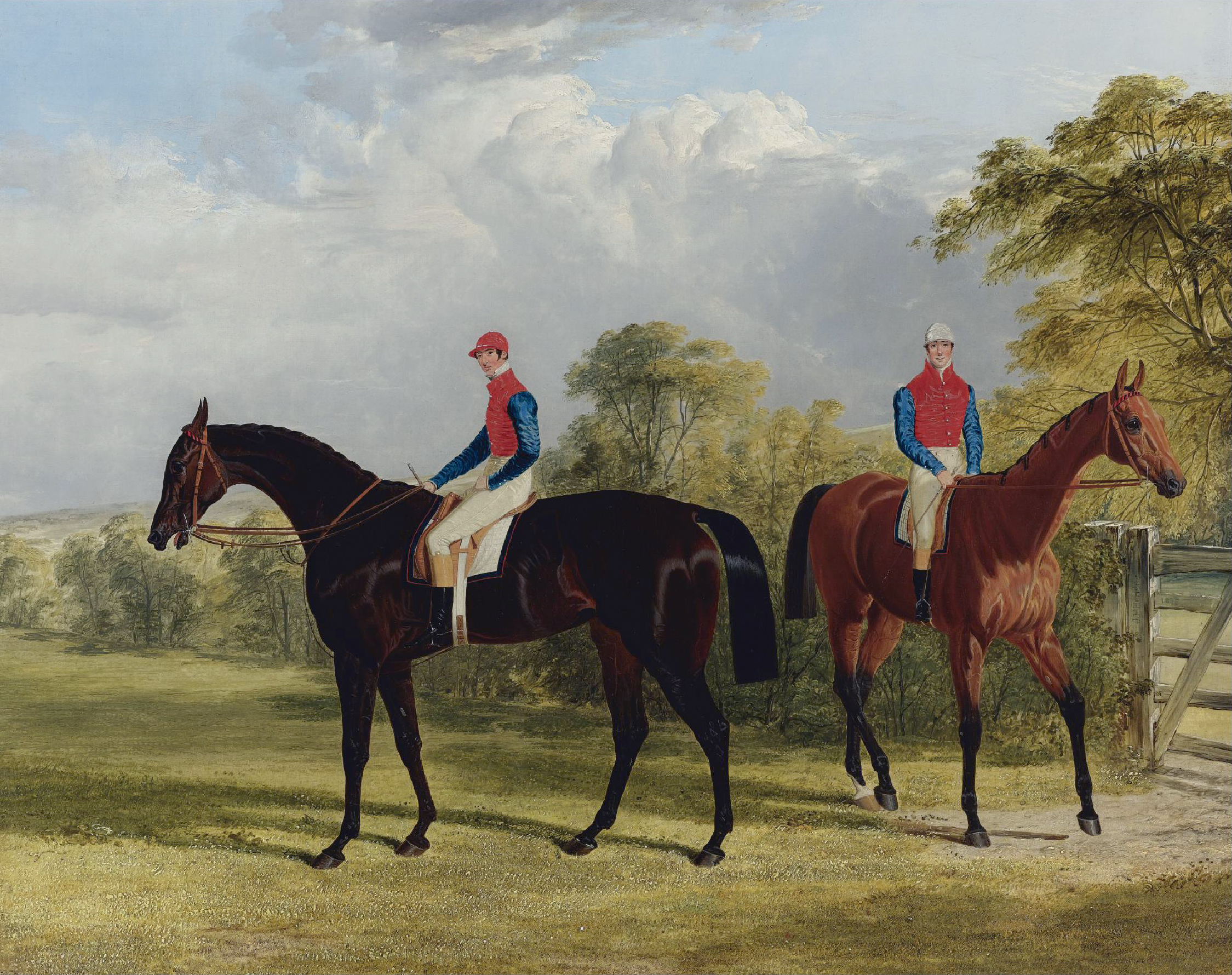 The Earl of Chesterfield's Industry with W Scott up and Caroline Elvina with J Holmes up in a paddock oil on canvas 71.1 x 91.4 cm signed l.r.: J.F. Herring 1838